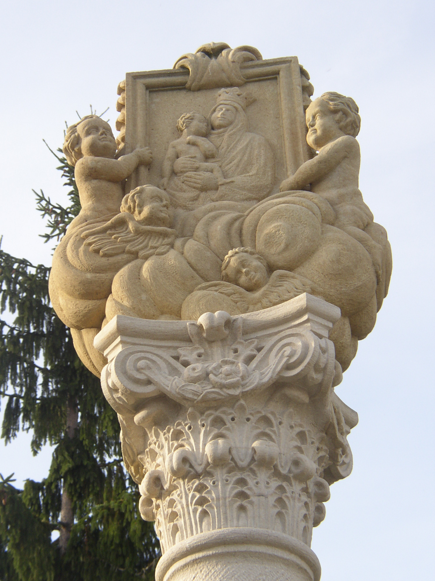 So called "Plaque column" in Buštěhrad, Kladno District, Central Bohemian Region, Czech Republic. Its capital is decorated with relief of Our Lady of Stará Boleslav. Located SW of Buštěhrad Chateau, at corner of Kladenská and Revoluční Str.